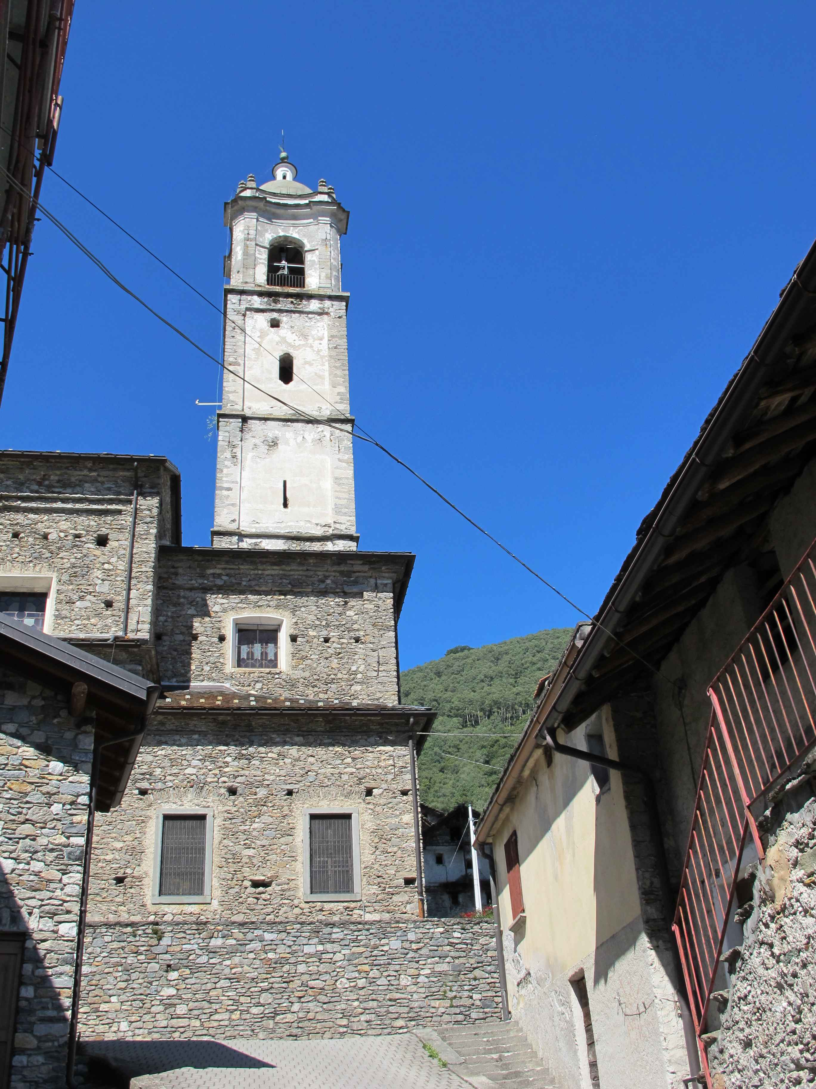 Italy, Lombardy, Livo, parish church San Giacomo